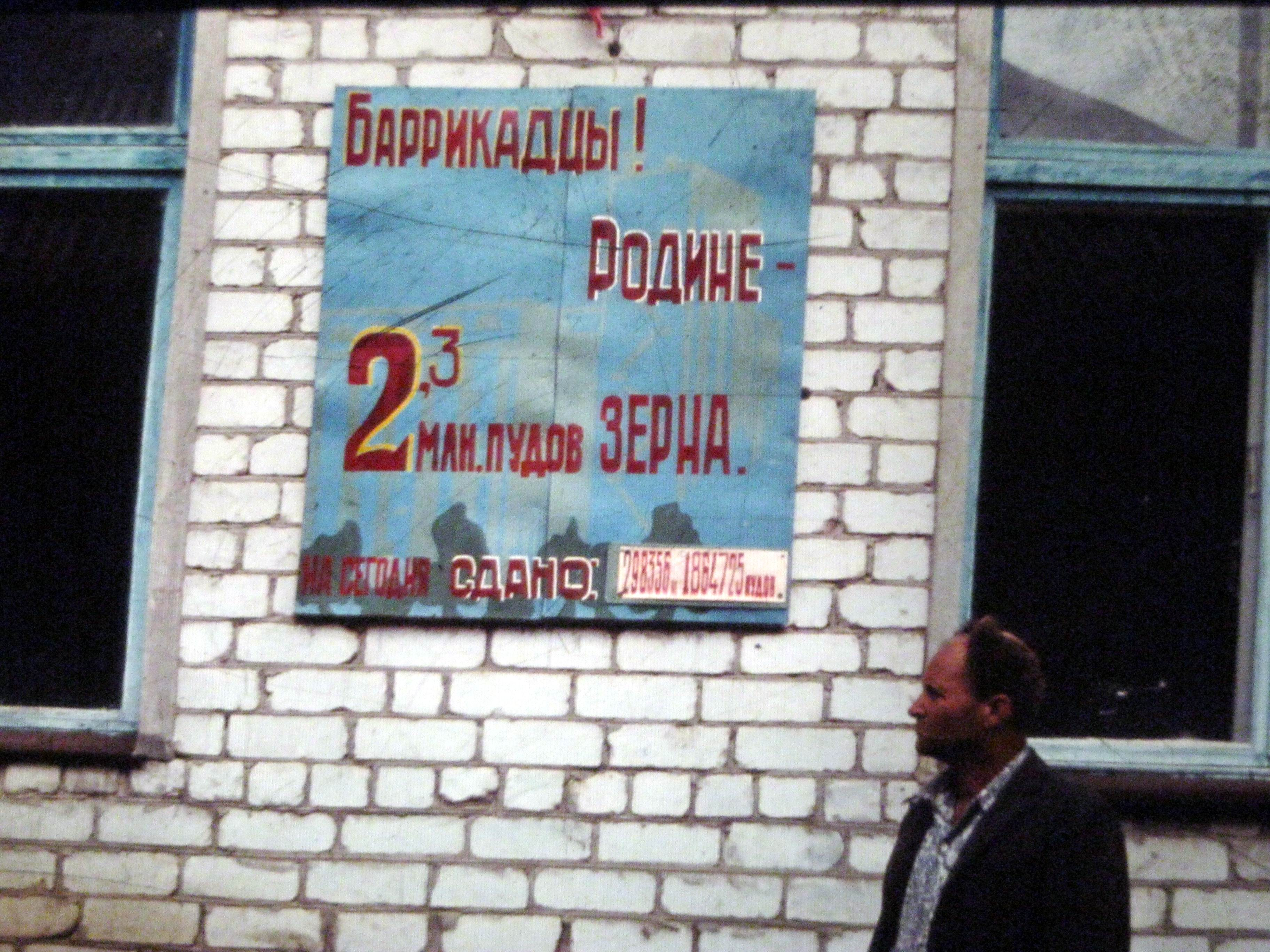 из истории совхоза "Баррикады". Село Лозное центральная усадьба совхоза